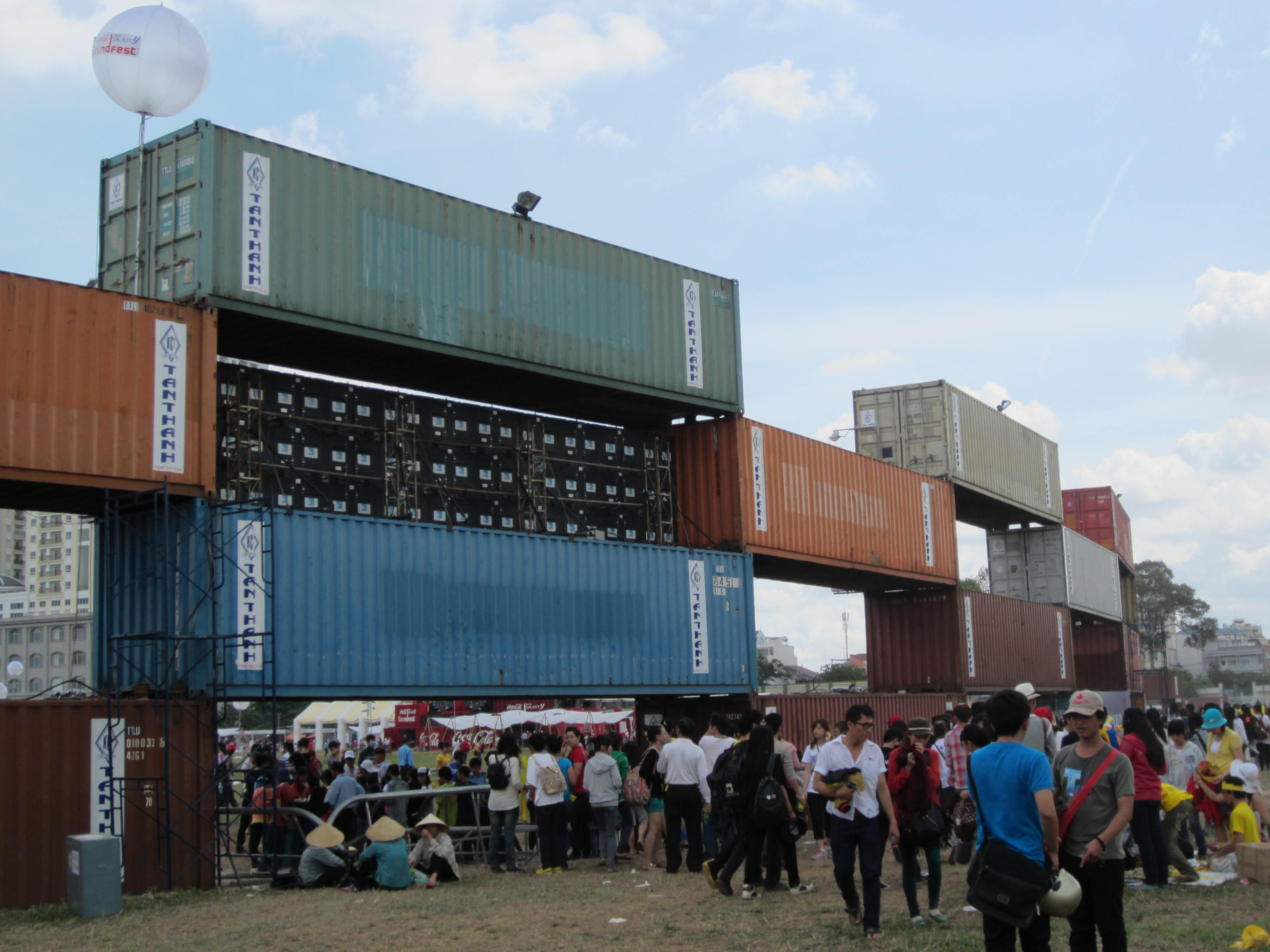 Photo of the entrance of Coca Cola SoundFest in Ho Chi Minh city, Vietnam on April 14, 2012